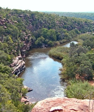 Photographer: C. Michael Hogan Subject: River gorge in Lapalala Wilderness, Waterberg, South Africa Date: April, 2006